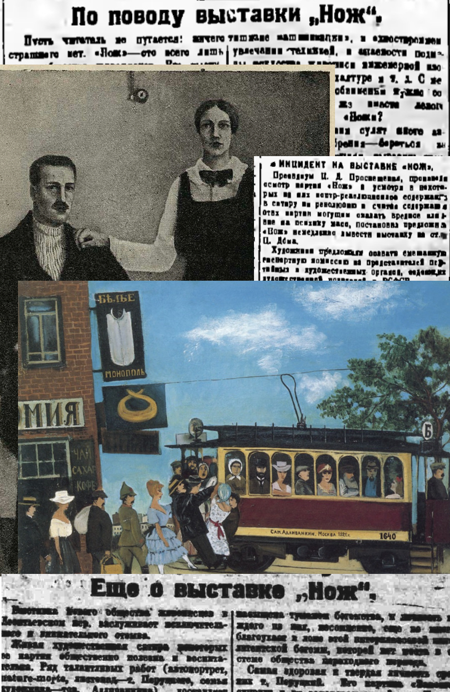 A collage of newspaper articles from November-December 1922 about the exhibition “The New Society of Painters” (“KNIFE”) and fragments of reproductions of paintings by the artists of the exhibition. Collage compiled to illustrate the article: “The New Society of Painters”. Used in the collage: articles from the “Izvestia” newspapers dated 11/26/1922, 12/01/1922 and “Pravda” dated 12/08/1922; fragments of reproductions of paintings by George Ryazhsky “Portrait of a prefabzavkom with his wife” (1922) and by Samuel Adlivankin “Tram B” (1922).